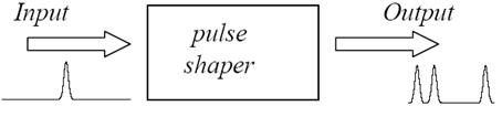 This is a basic description of pulse shaper